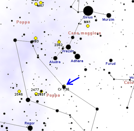 Cr 135 map